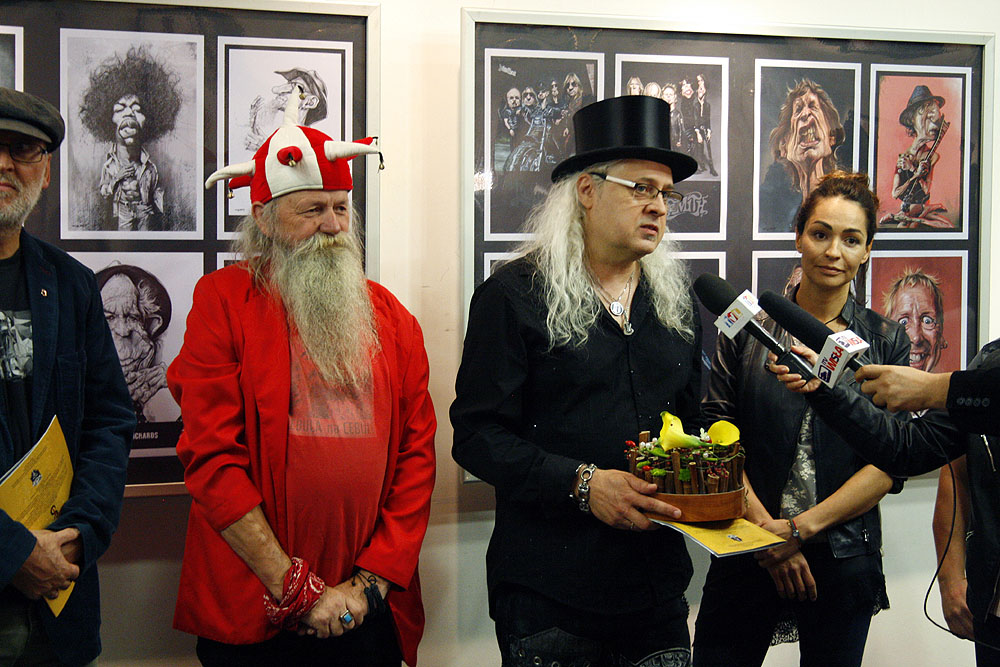 18 edycja festiwalu "Satyrblues" (Tarnobrzeg 16.09.2017).